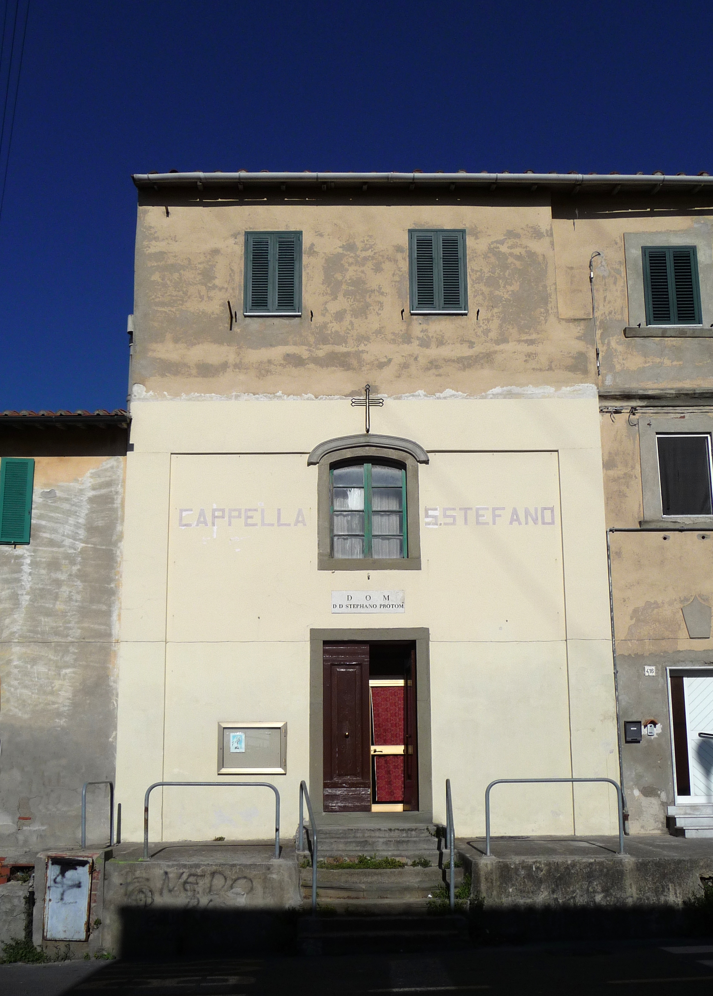 Cappella di Santo Stefano, Livorno, Italy